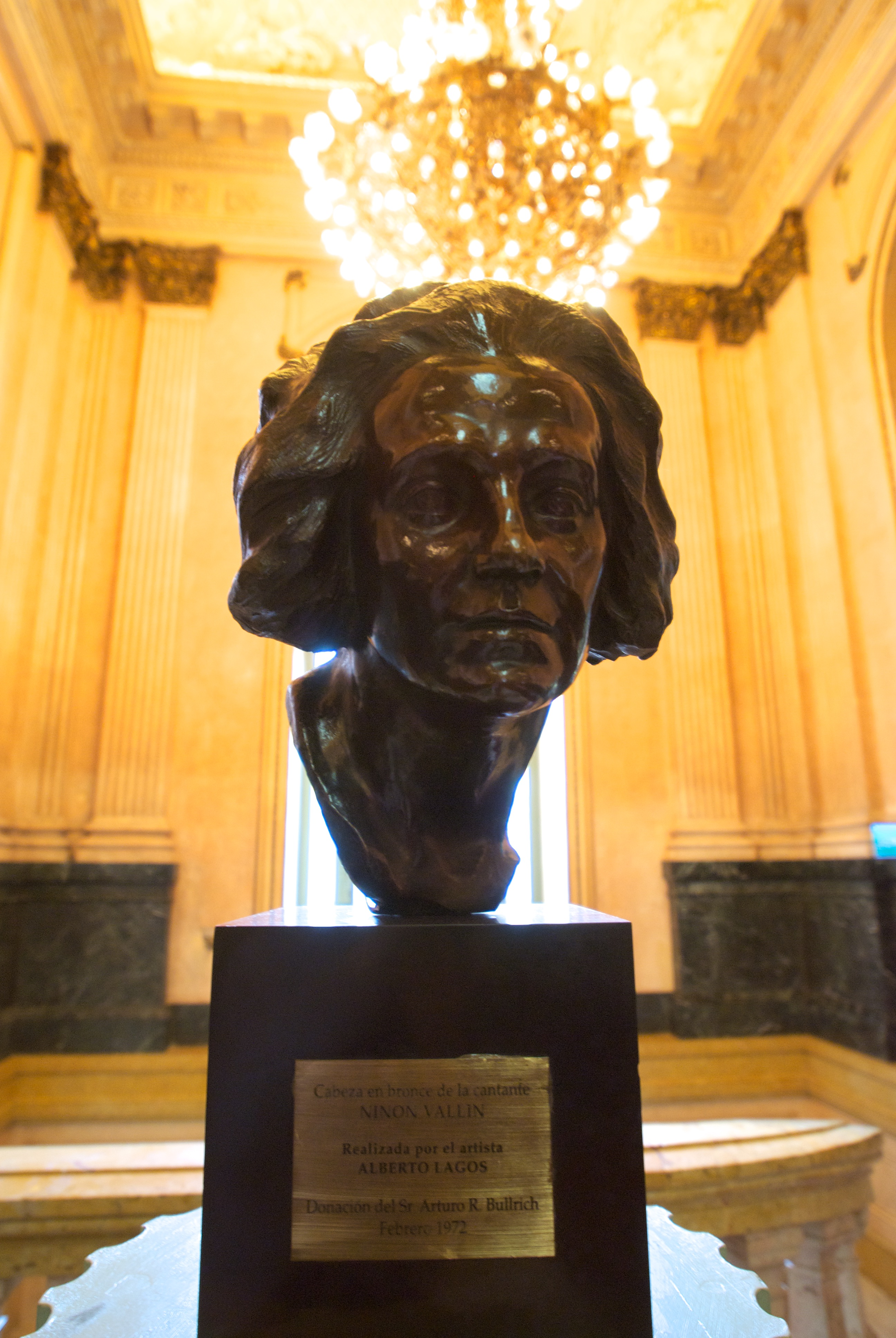 Bust of singer Ninon Vallin in Teatro Colon, Buenos Aires, Argentina